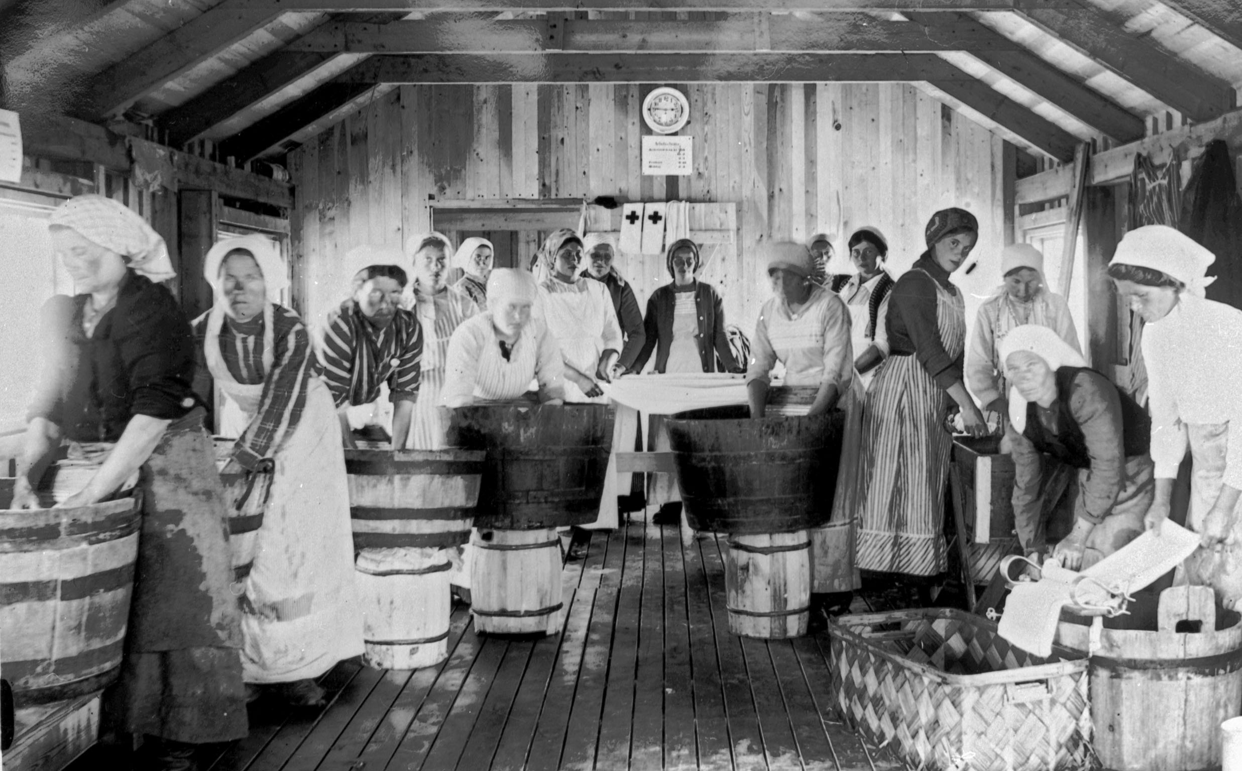 Maria Amalia "Mia" Green, born Lundmark in Sweden on April 14, 1870, died in Haparanda on June 24, 1949, was a Swedish photographer. Mia Green is the mother of Lennart Green the grandmother of Marika Green and Walter Green and the grandfather of the actress Eva Green